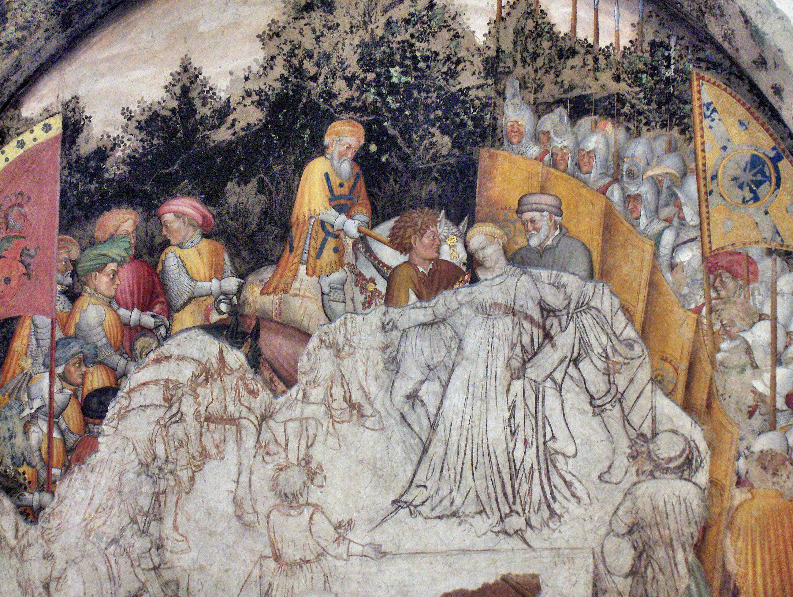 Fresco (partly unfinished in the sinopia stage) by Gentile da Fabriano, Loggia (the Founding of Rome); Trinci Palace, Foligno, Italy